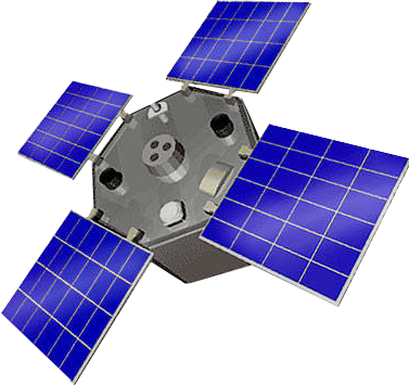 Artist's concept of the ACRIMSAT satellite.